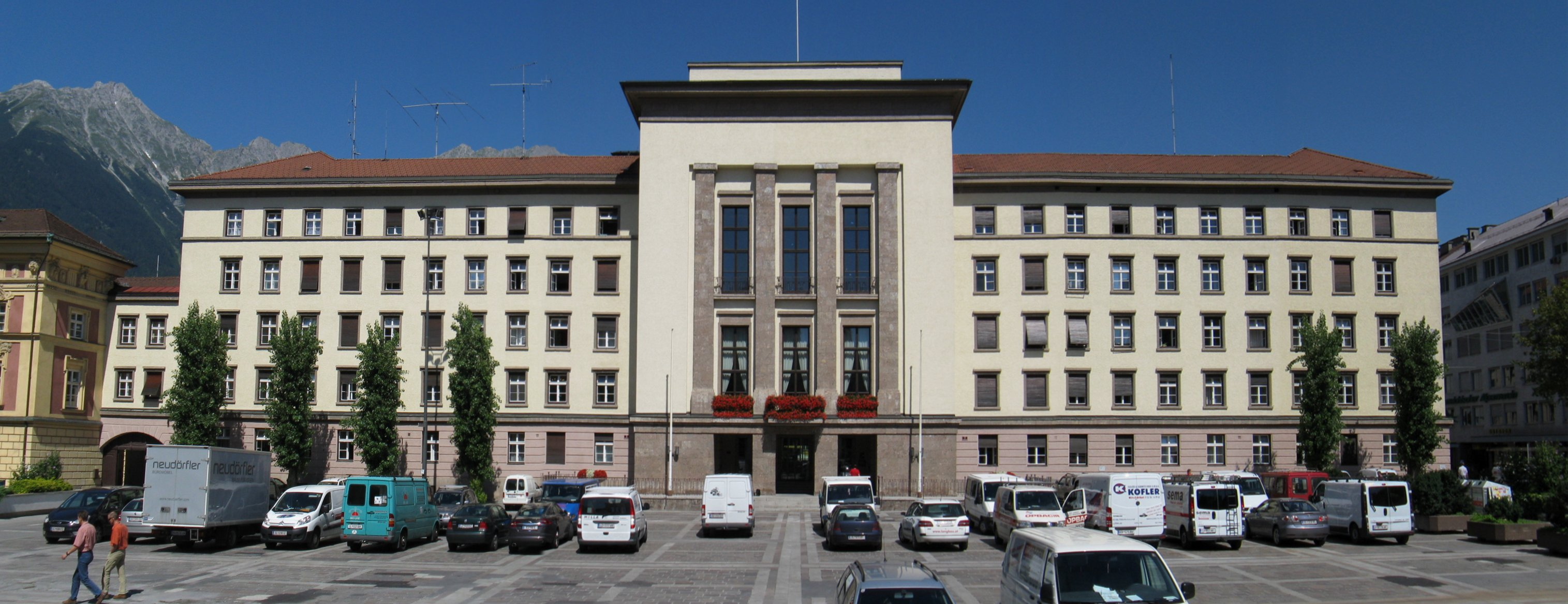 panoramic view of Neues Landhaus (new provincial parliament building) in Innsbruck, Tyrol, Austria